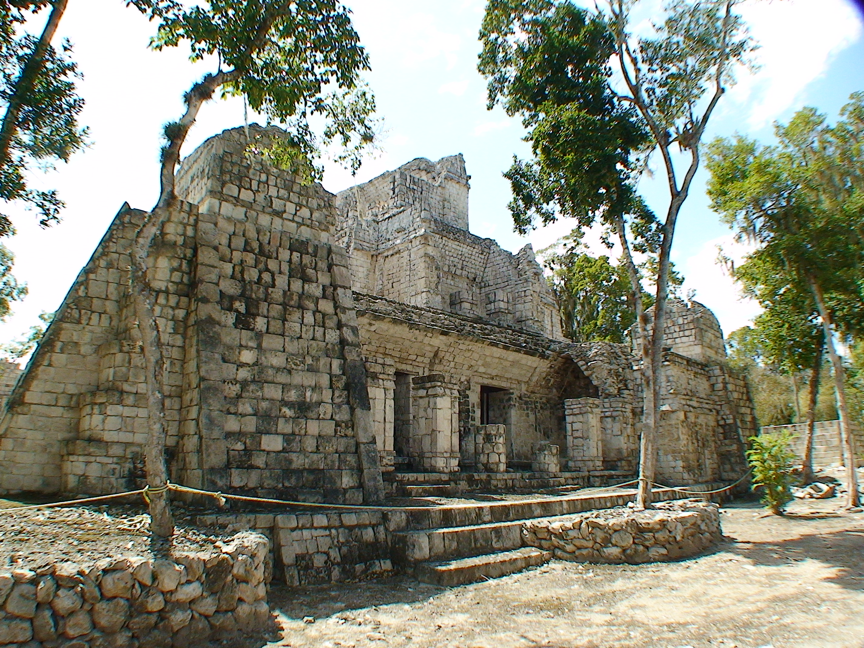 Santa Rosa Xtampak, Campeche, Mexico: Palace, rear facade